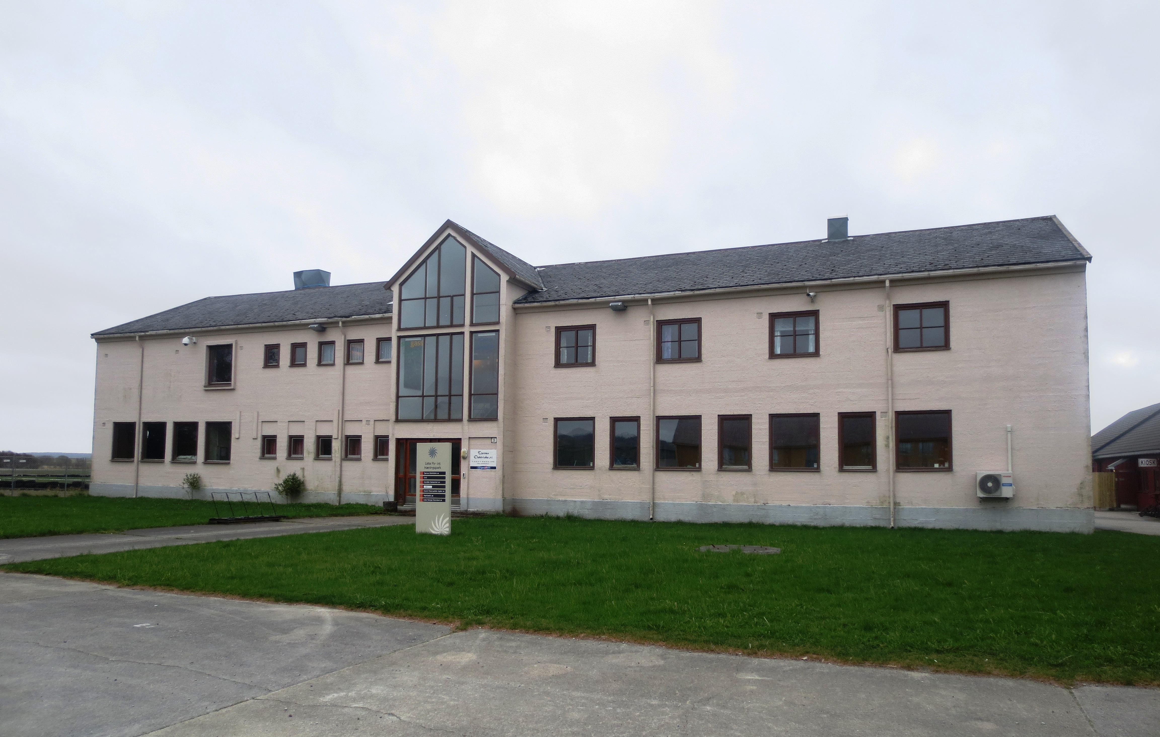 Lista former Airforce Station (flystasjon) in Farsund municipality, Norway